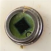 Si Photodiode Osram BPW21 with human eye wavelength sensitivity